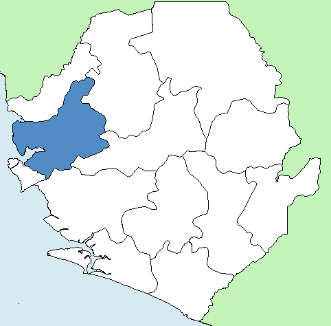 Map showing location of Port Loko District in Sierra Leone